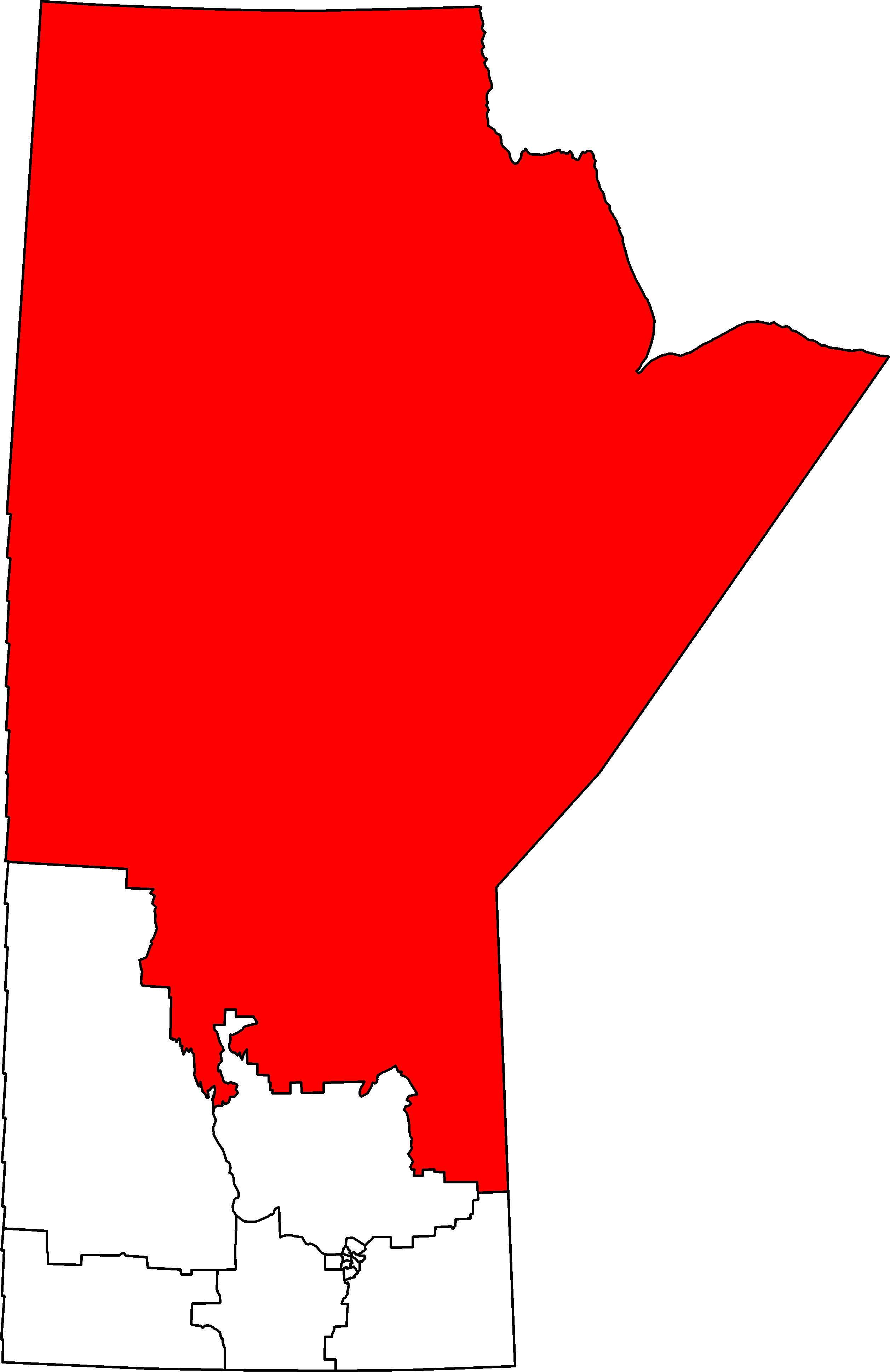 Federal Electoral District in Manitoba, Canada as of the 2013 Representation Order.